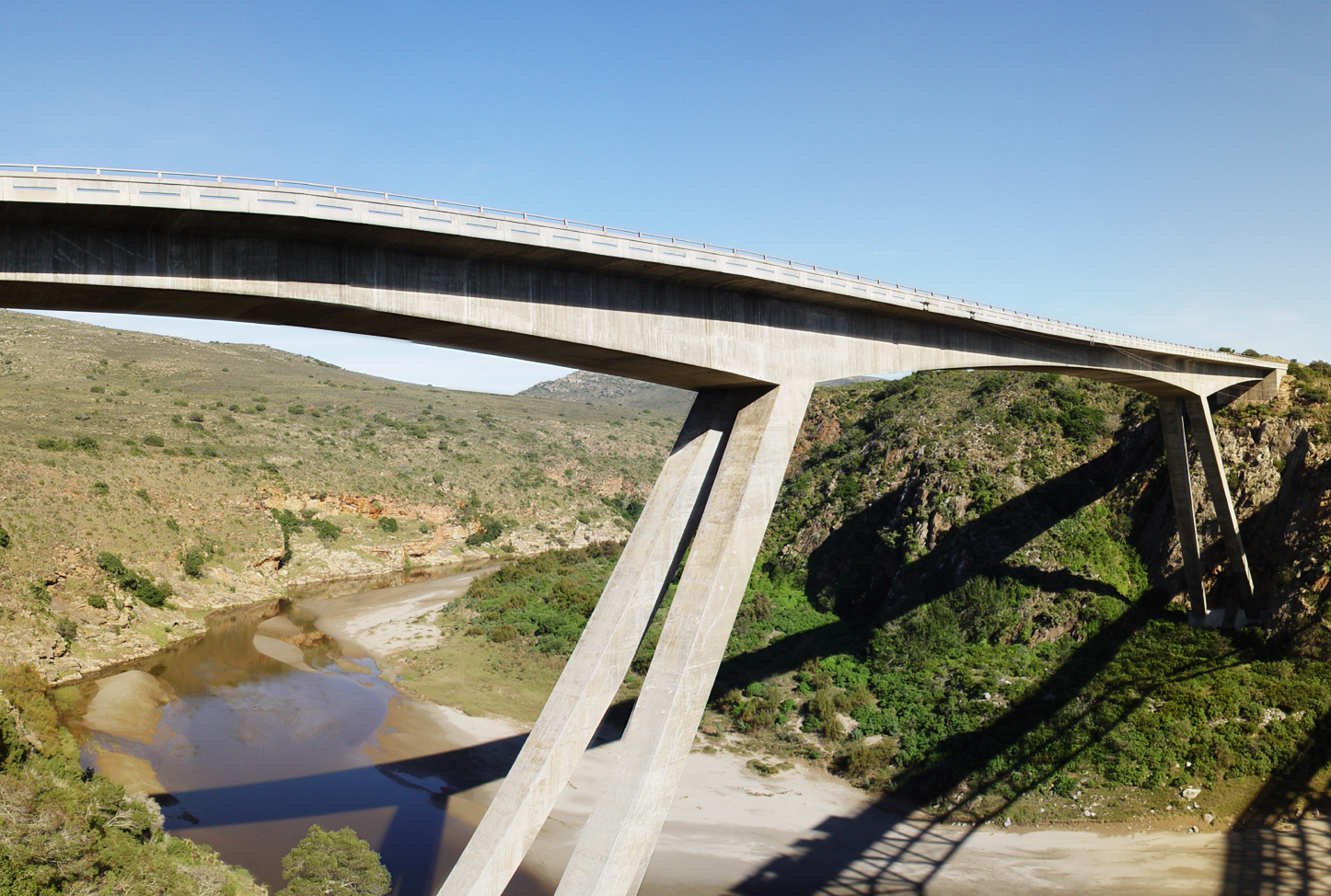 The Gourits River Bridge near Mossel Bay, Western Cape, South Africa